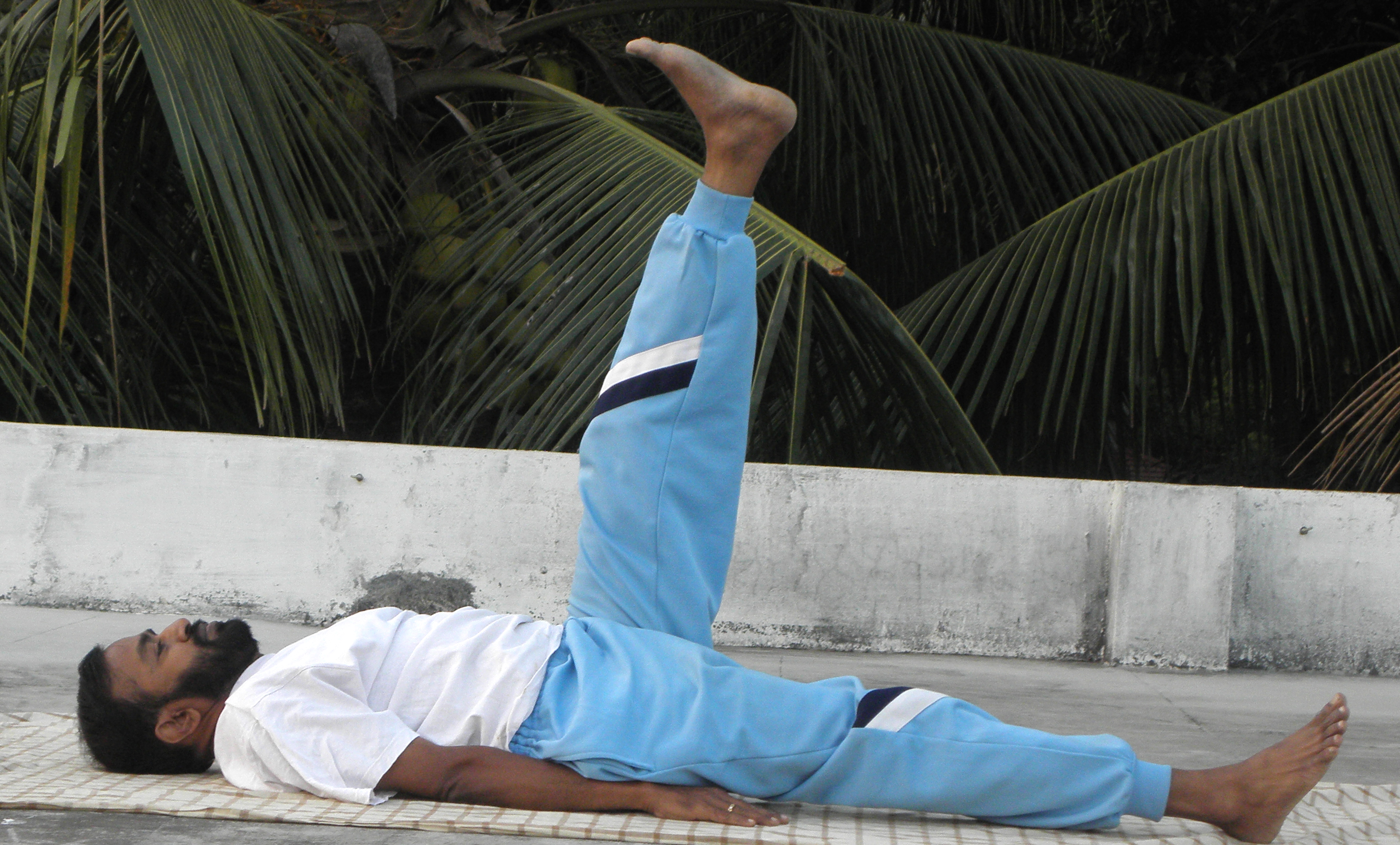 Yogasana pose